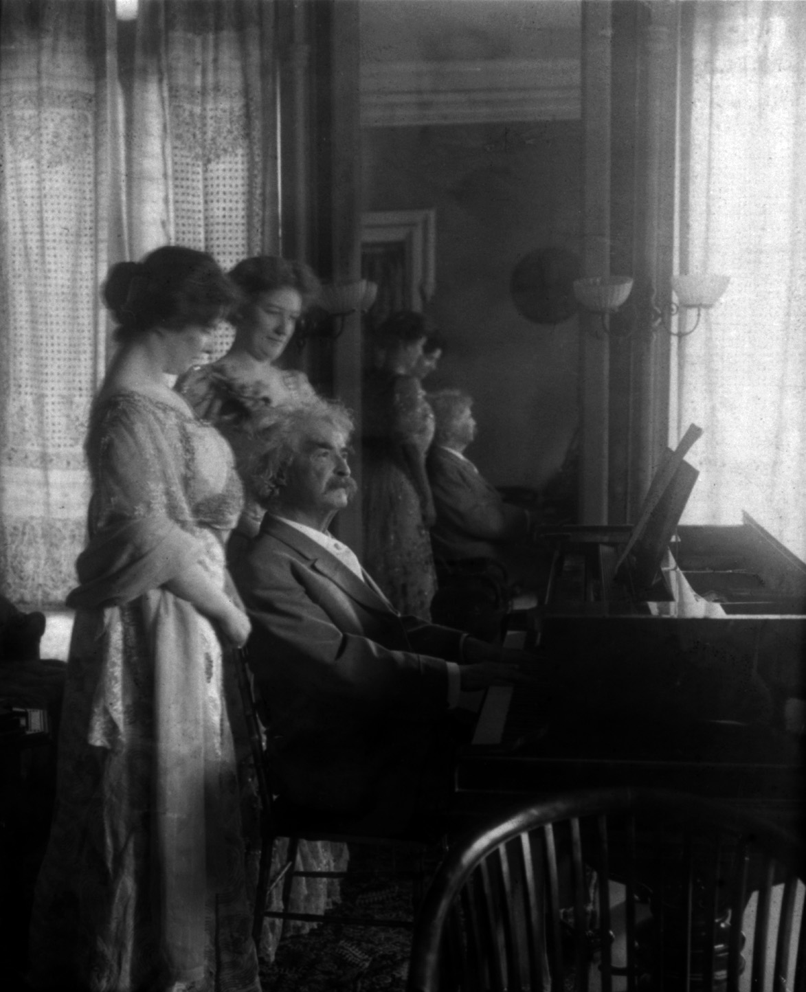 Samuel Clemens (Mark Twain) with Clara Clemens (foreground) and her friend Miss Marie Nichols.